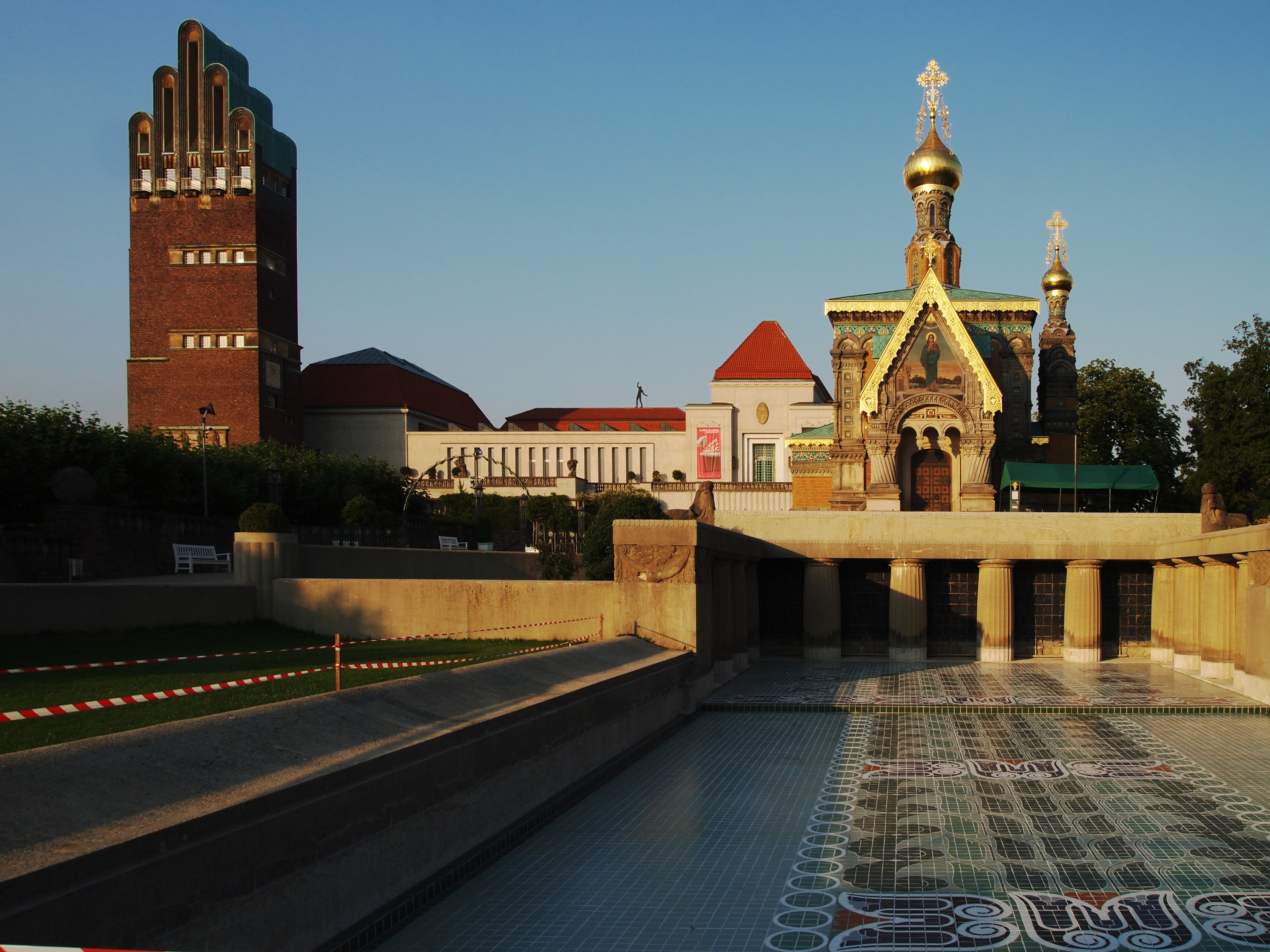 Mathildenhöhe, Art Nouveau colony in Darmstadt, Germany. Wedding Tower and Exhibition Building were added by Joseph Maria Olbrich for the third exhibition in 1908. With the slightly older Russian Chapel, they are prominent landmarks on the hilltop.